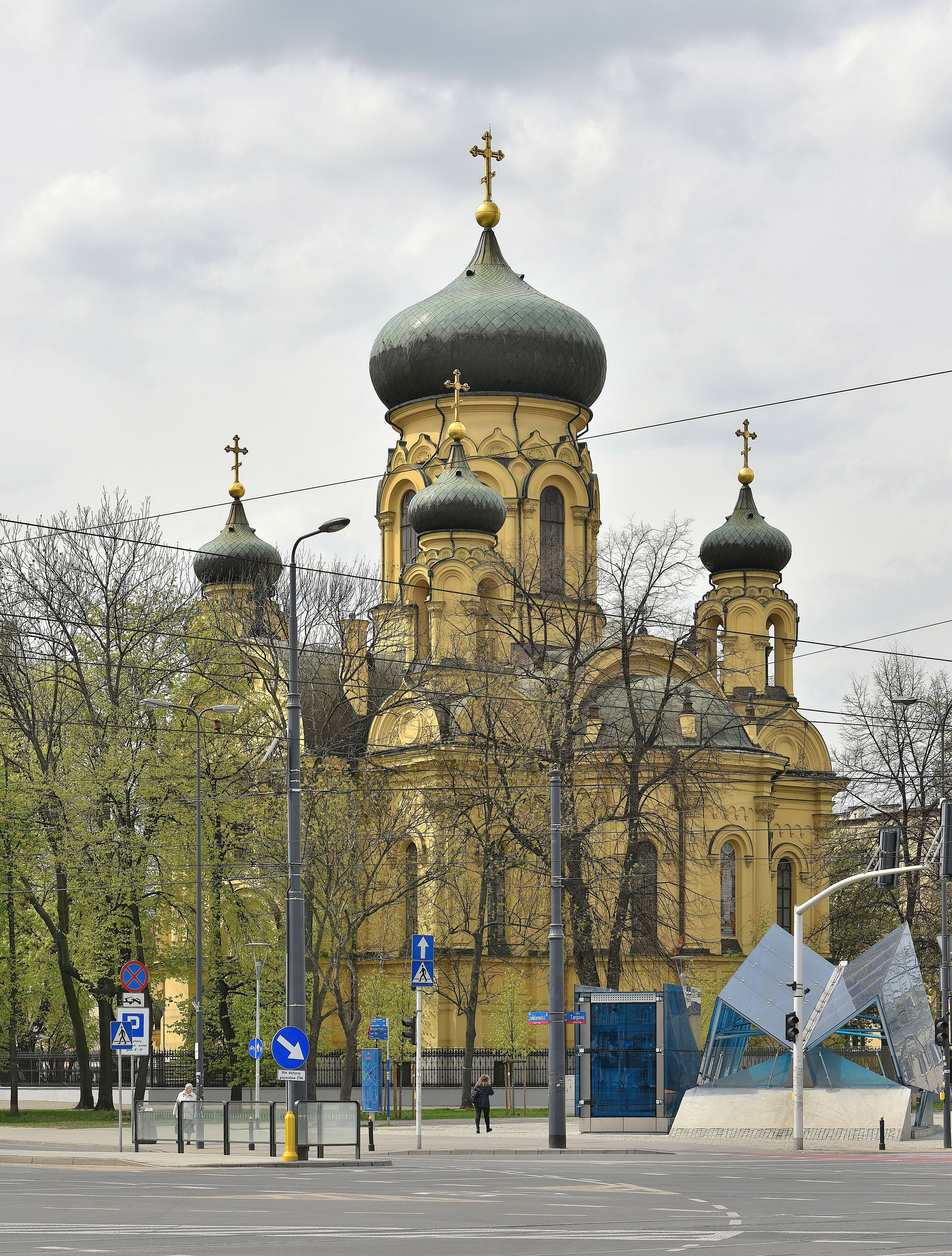 Metropolitan Orthodox Cathedral of St. Mary Magdalene in Warsaw viewed from Wileński Square